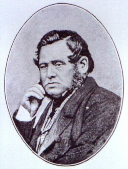 Historic portrait of ironmaster John Vaughan, co-founder of Bolckow, Vaughan ca 1860